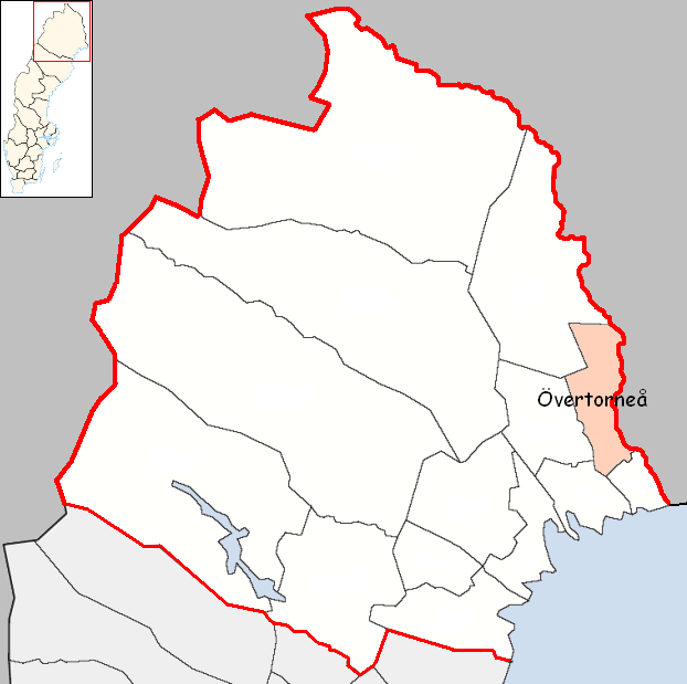 Övertorneå Municipality in Norrbotten County Designed by me. Mere outlines are a PD source from